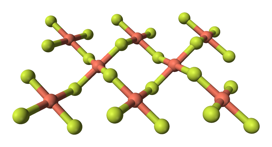 Ball-and-stick model of part of a layer in the crystal structure of copper(II) fluoride, CuF2